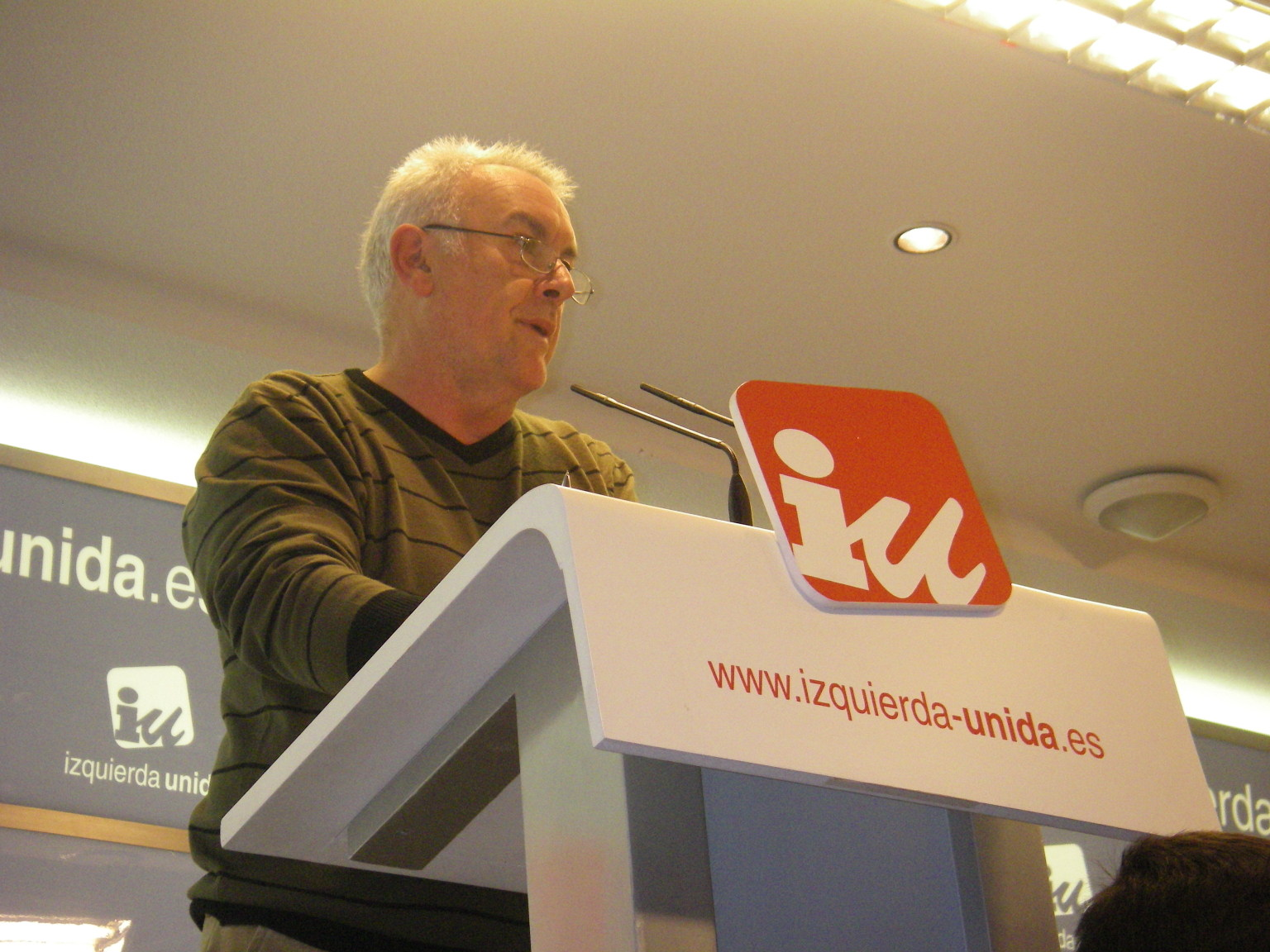 Cayo Lara, General Coordinator of Izquierda Unida, speaks to the Political COuncil of the organisation